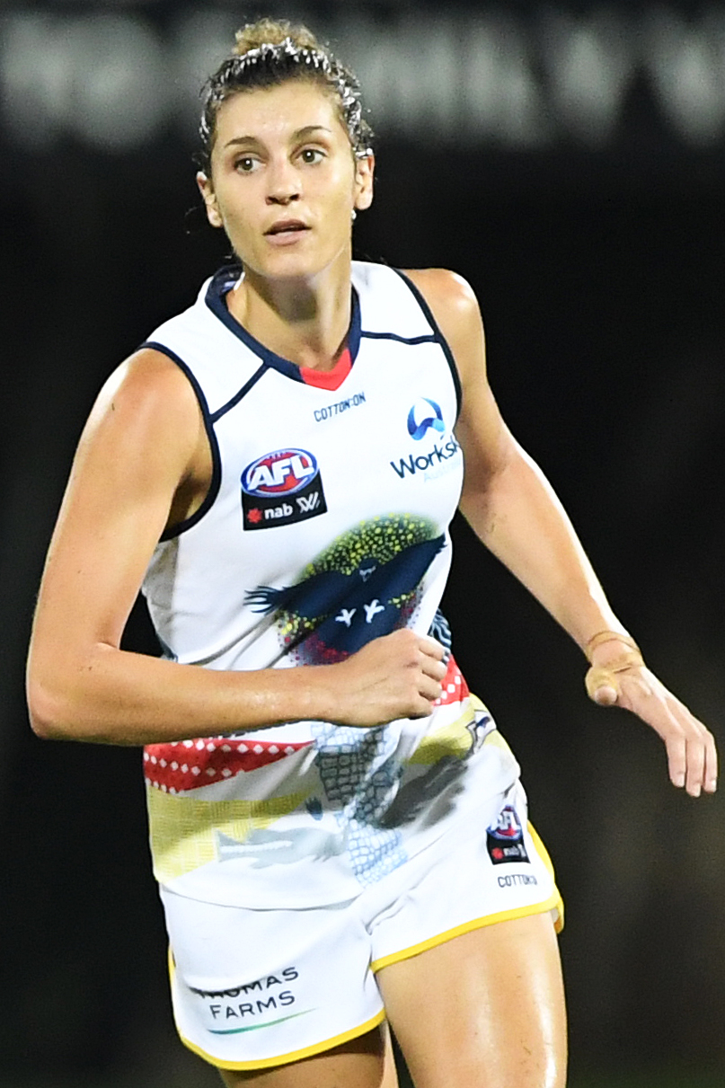 Jasmyn Hewett of Adelaide during the 2019 AFL Women's practice match between the Adelaide Football Club and Fremantle Football Club at TIO Stadium on January 19, 2019 in Darwin Australia.